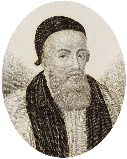 Thomas Goodrich (1494-1554)